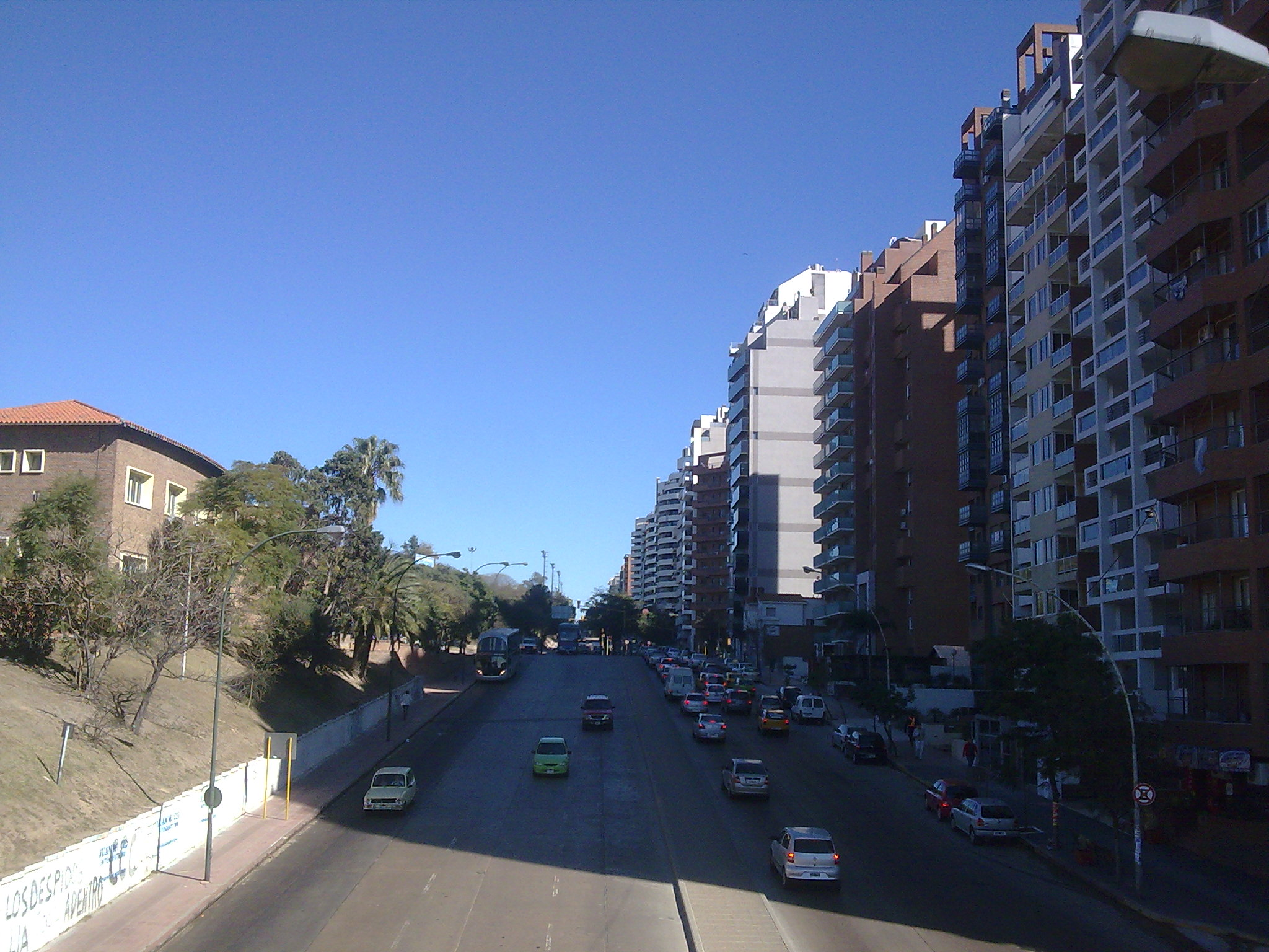 View to the south of Leopoldo Lugones avenue. Cordoba, Argentina.